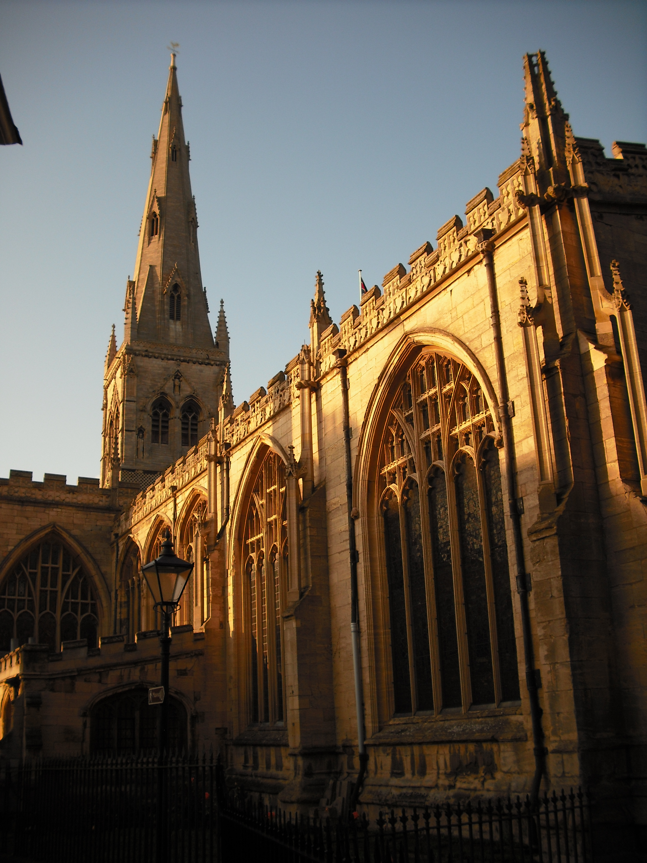 South side St Mary Magdalene's church, Newark